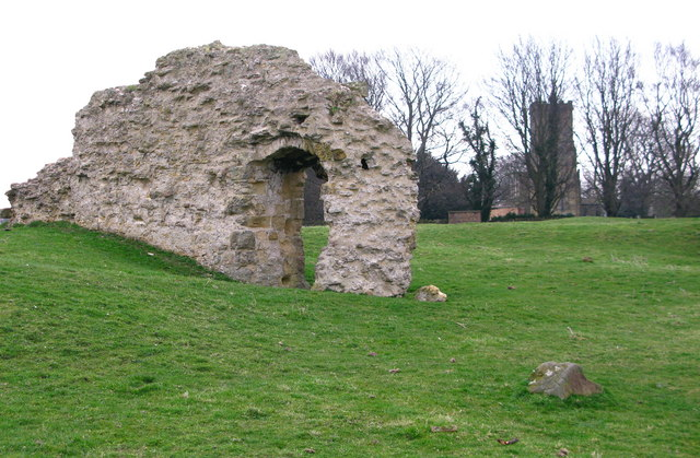 Seamer Manor House On an area known as Manor Garth, the House was already in ruins by 1854. The doorway is reported to date from the 15c. St Martin's Church is in the background.